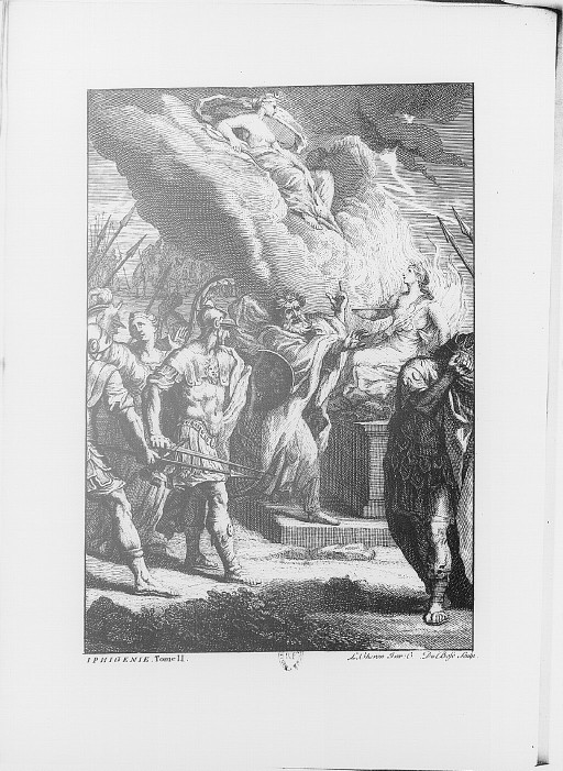 Illustration for the last scene of "Iphigénie" (Jean Racine).